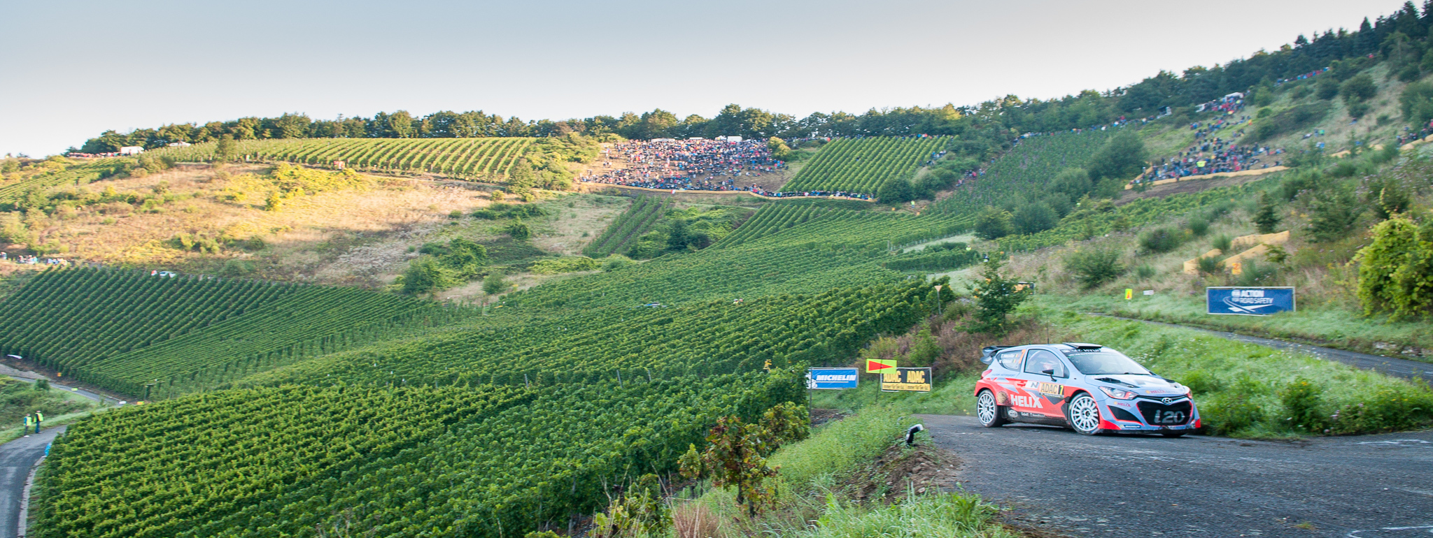 ADAC Rallye Deutschland 2014,Dhrontal,FIA,FIA World Rally Championship,Hyundai Motorsport,Hyundai i20 WRC,Motorsport,Nicolas Gilsoul,Rally,Rallye,SS15,Thierry Neuville,WP15,WRC